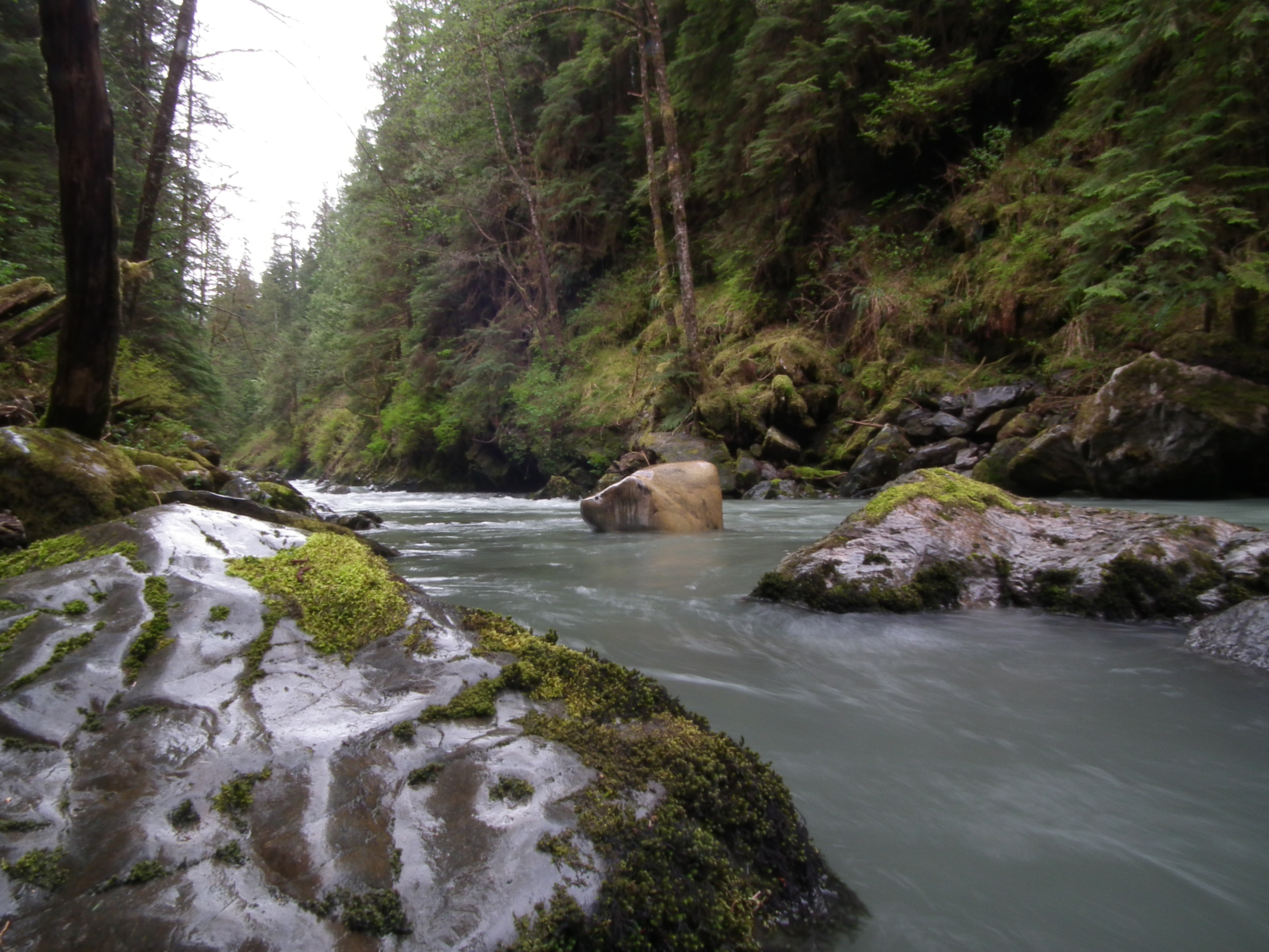 The Boulder River in the Boulder River Wilderness, Mt. Baker-Snoqualmie National Forest, Washington, USA.